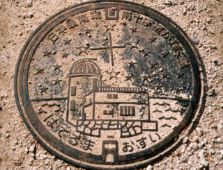 Manhole covers in Japan are a source of pride for the city, district or municipality. They are all made custom designed for beauty, humor, or information.